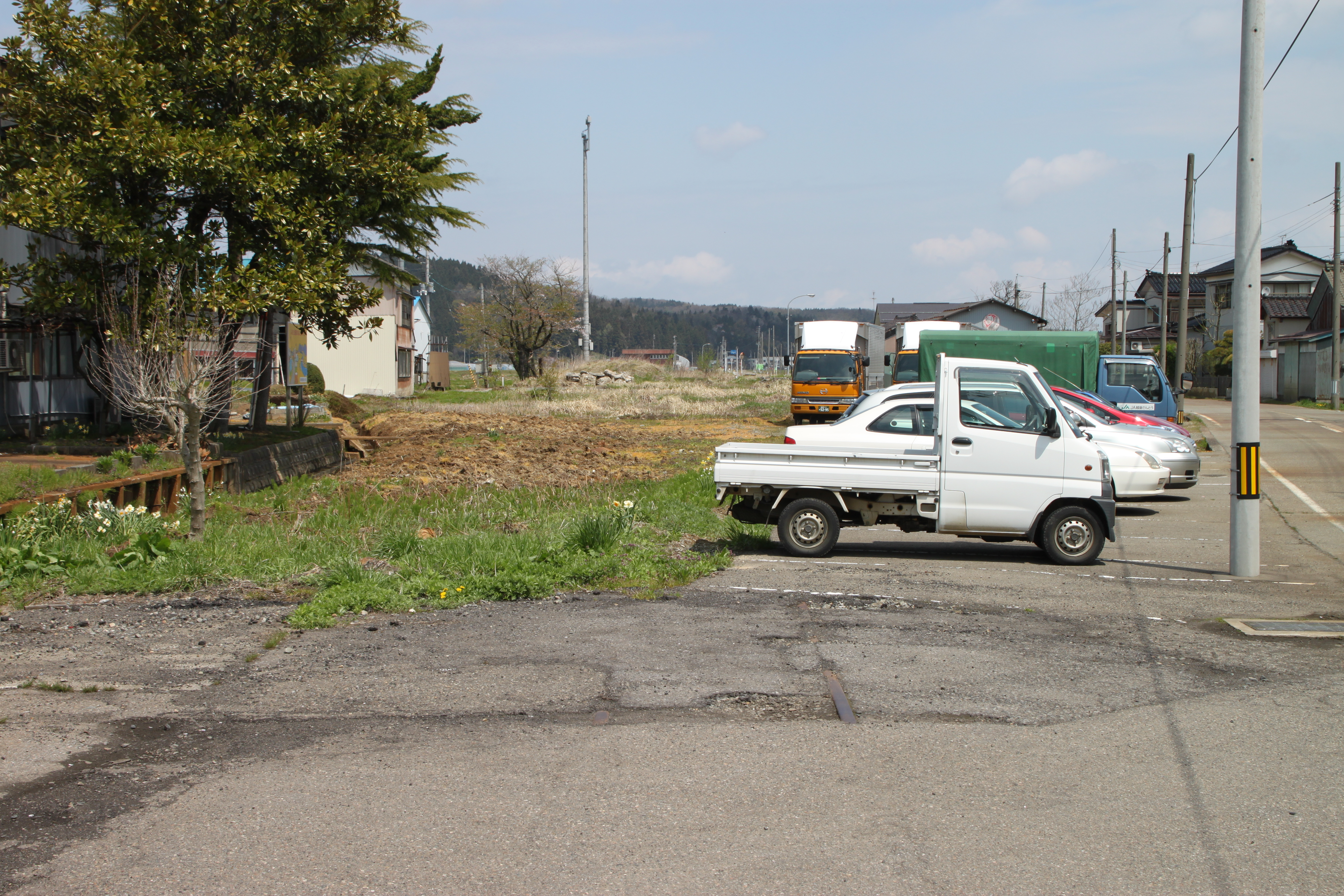 Site of Echigo Kotsu Yoita Station